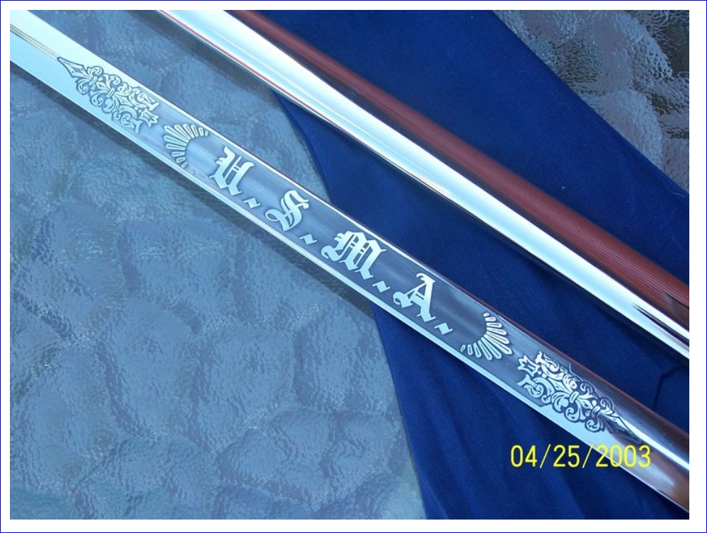 U.S.M.A. has been etched on all West Point cadet swords have been etched since 1872